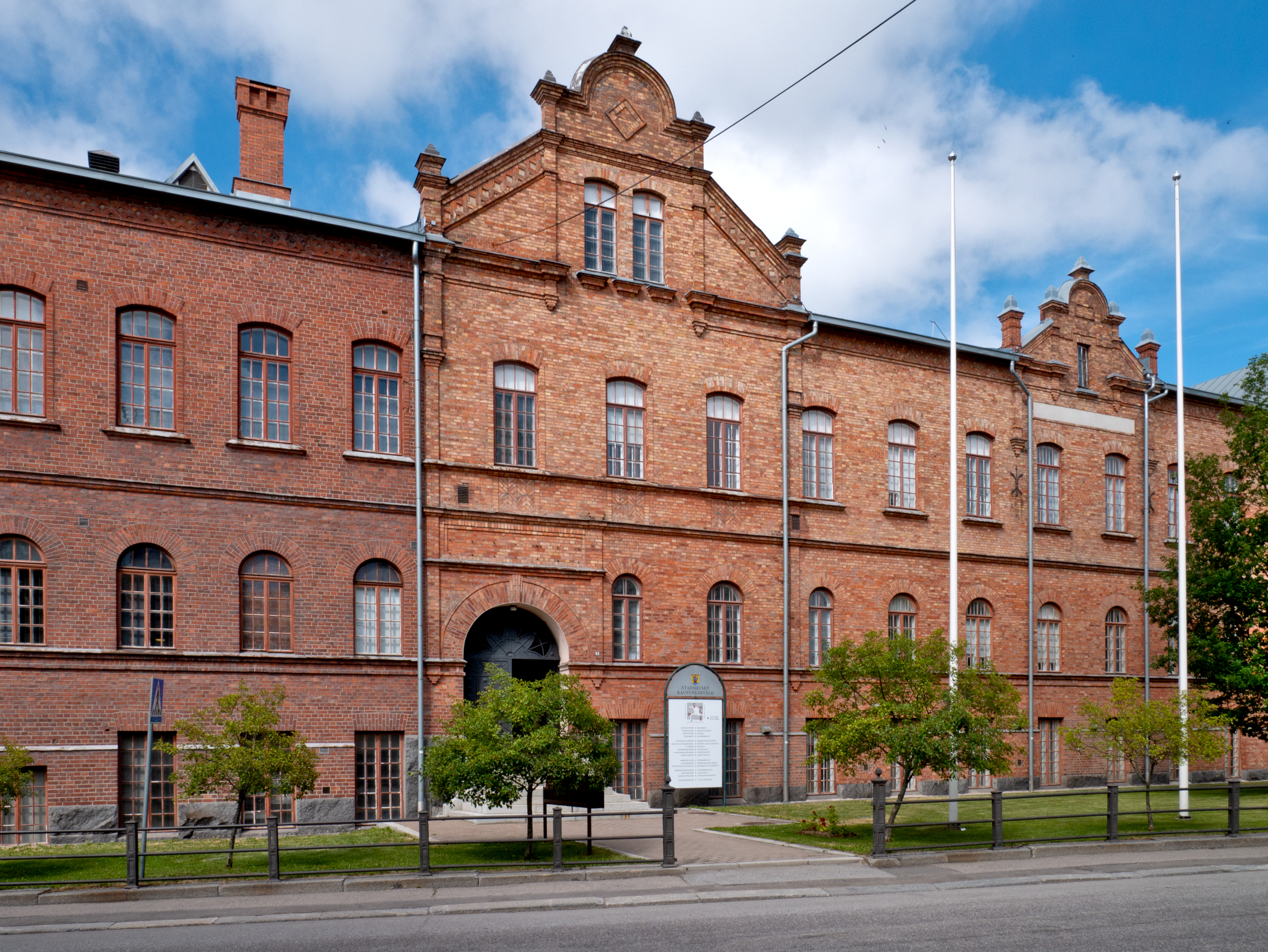 Jakobstad town hall.